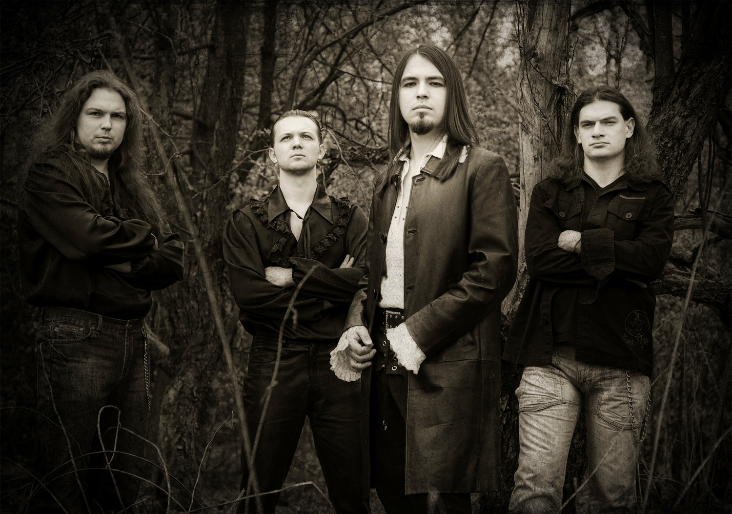 This work is free and may be used by anyone for any purpose. If you wish to use this content, you do not need to request permission as long as you follow any licensing requirements mentioned on this page.